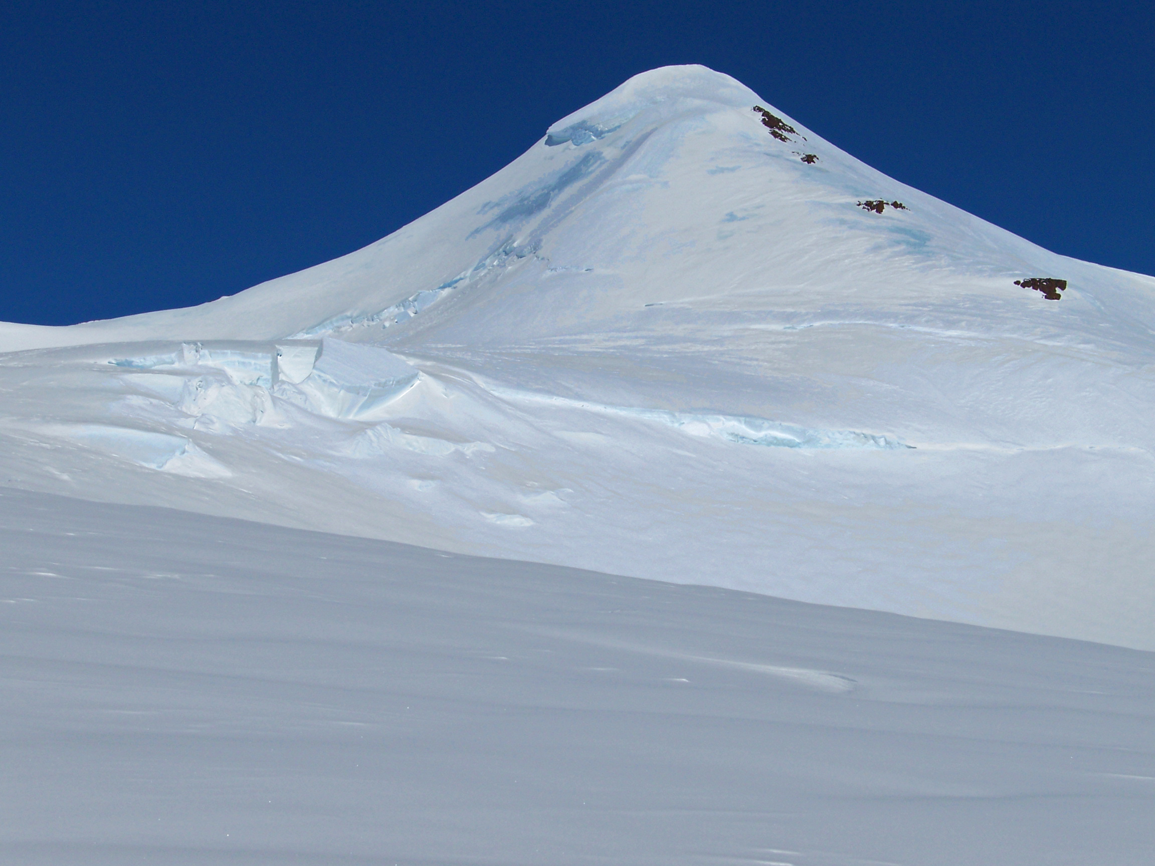 The Cone the third highest mountain in Greenland